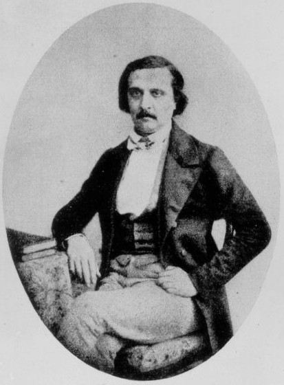 Published in the US around 1901 in F. Moore's History of Chemistry